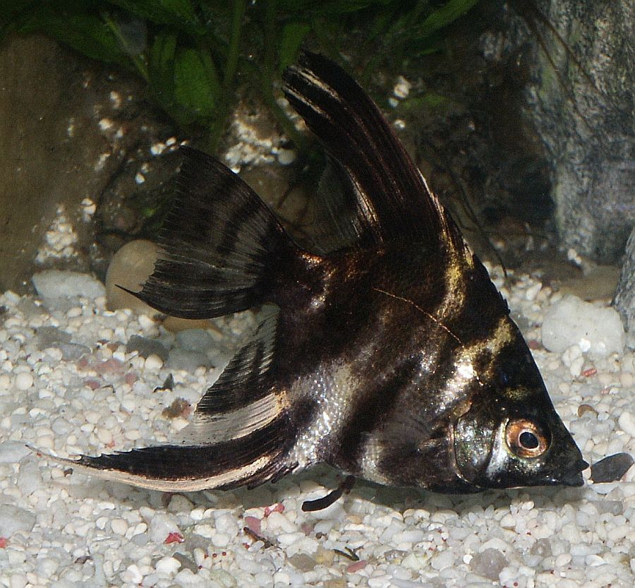 Marble - Gold AngelFish - Pterophyllum scalare.